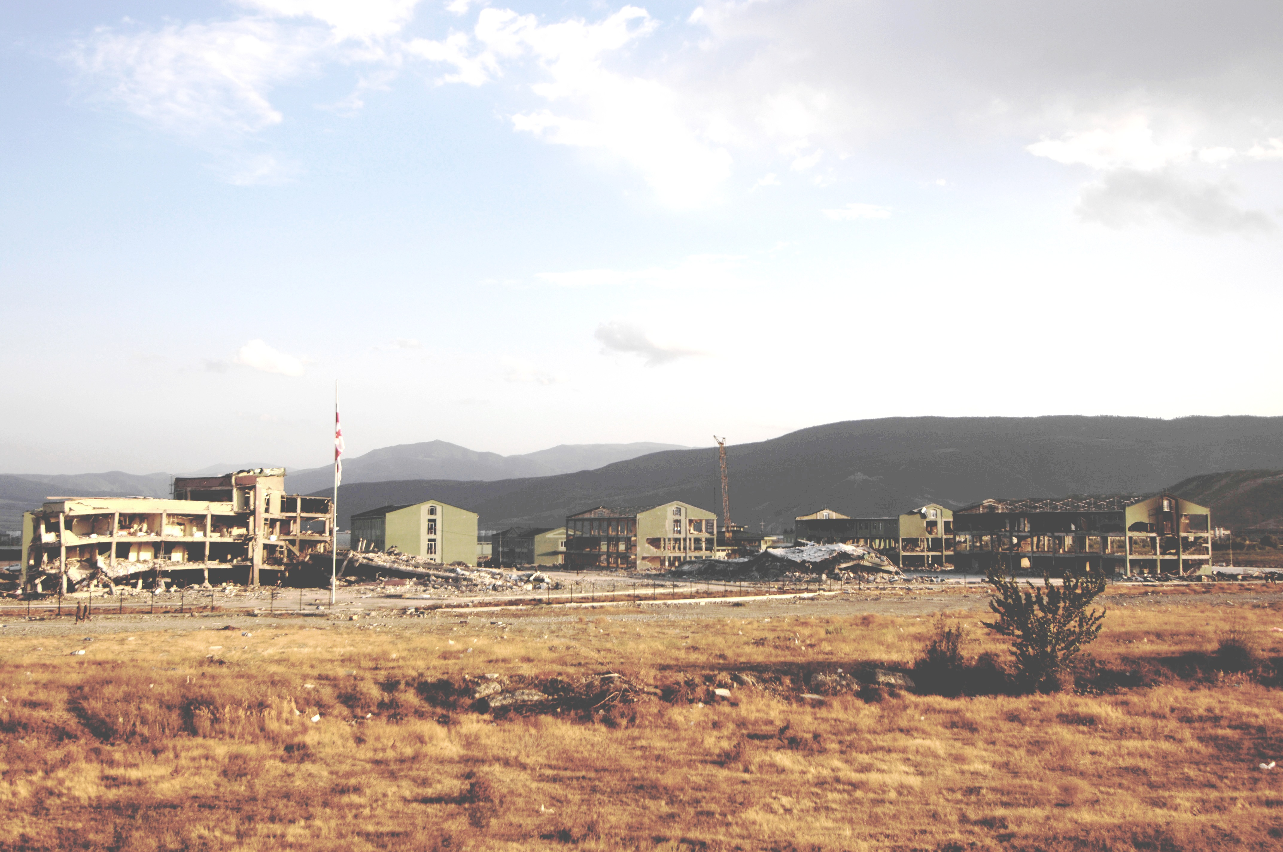 The Georgian flag flies above a military base in Gori, Republic of Georgia, Sept. 6, 2008. The base was badly damaged by an earlier Russian strategic air strike. The U.S. European Commands Joint Humanitarian Assistance Assessment Team is working closely with other elements of the federal government, international governments, aid agencies, and the Republic of Georgia to alleviate the suffering of the Georgian people affected by the conflict.